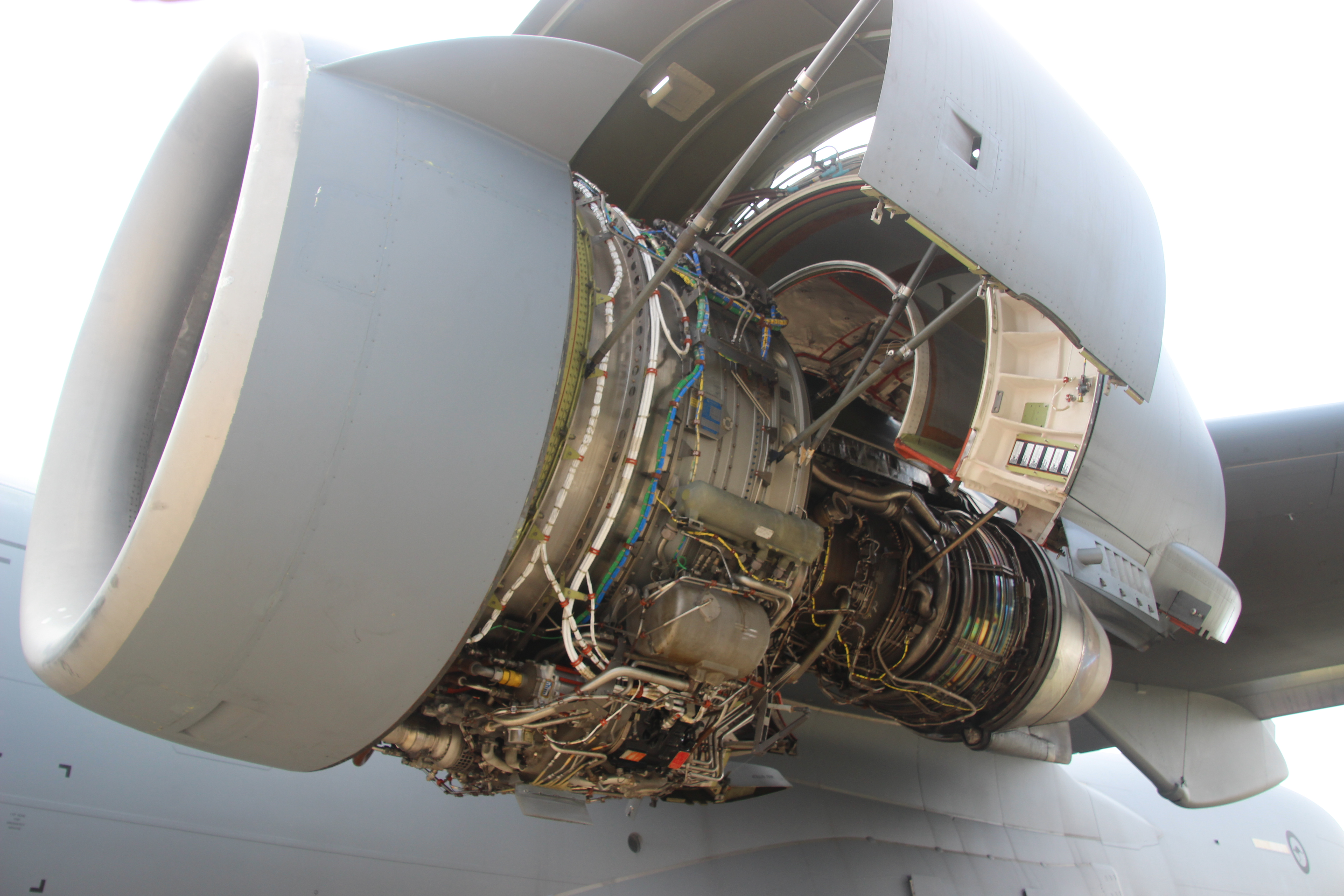 A Pratt & Whitney F117 turbofan engine mounted on the wing of a Boeing C-17 Globemaster III with cowlings open.